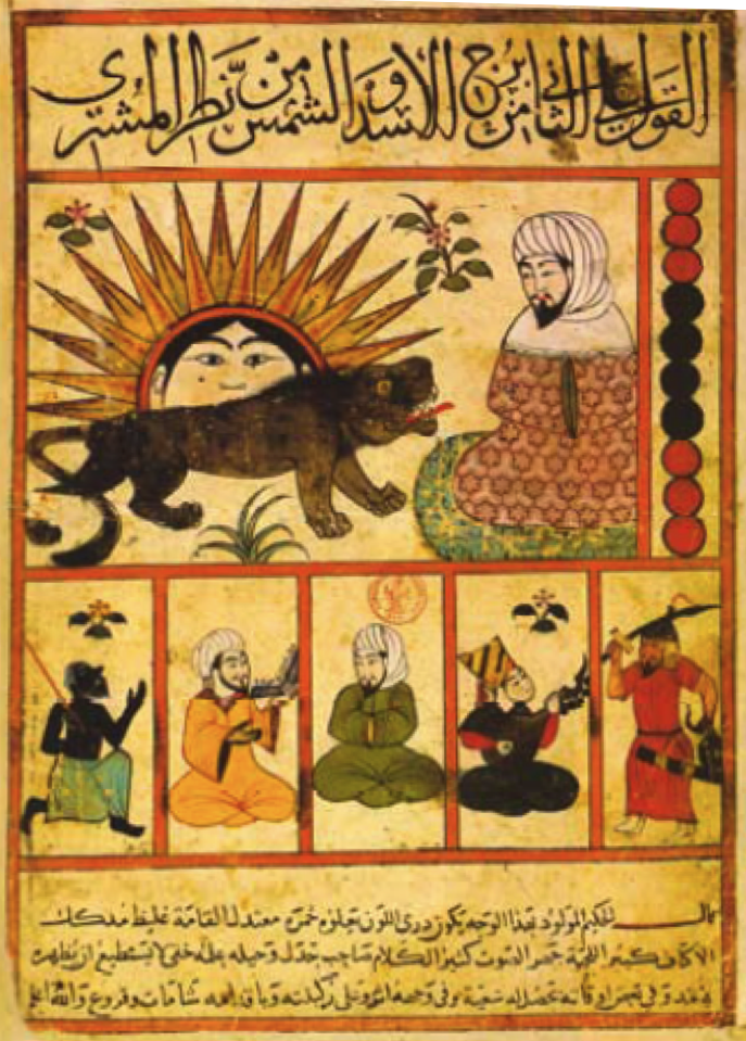 Page from a 15th-century Egyptian ms. of 'Kitâb al-Mawâlid' ('The Book of Nativities') by Abu Ma'shar (Albumasar). [1] BNF Arabe 2583, paper, 37 foll., 36 × 26,5 cm Ce manuscrit au style composite a été copié sur un modèle jalayride par un peintre d’origine persane, Qanbar ‘Alî Naqqâsh Shirâzî, sans doute sous les Mamelouks. Les trente-six sections qu’il comporte correspondent aux décans des signes du zodiaque. Dans le cadre central, on voit le signe du lion associé au soleil, planète dominante et montré dans le second décan sous l'influence de Jupiter. Dans les vignettes figurent les planètes des cinq sections du signe : Saturne, un genou à terre, en homme noir et barbu, torse nu et hache à la main ; Mercure symbolisé par un scribe, un codex ouvert à la main ; Jupiter, en homme de loi en turban, assis en tailleur ; Vénus, en femme musicienne jouant du luth ; Mars peint en guerrier casqué, sabre levé et tenant une tête décapitée.